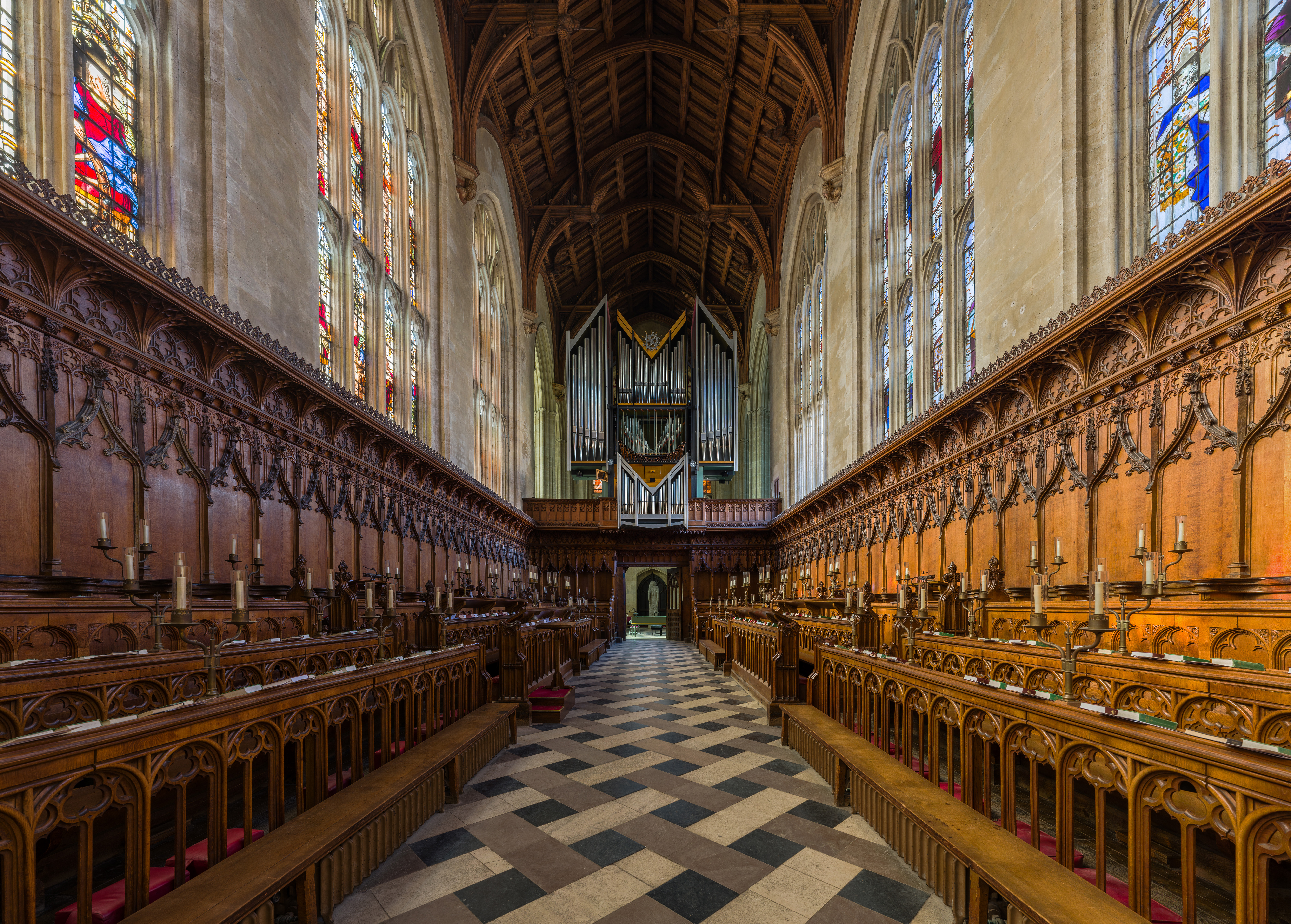 The interior of New College Chapel looking west, Oxford, England